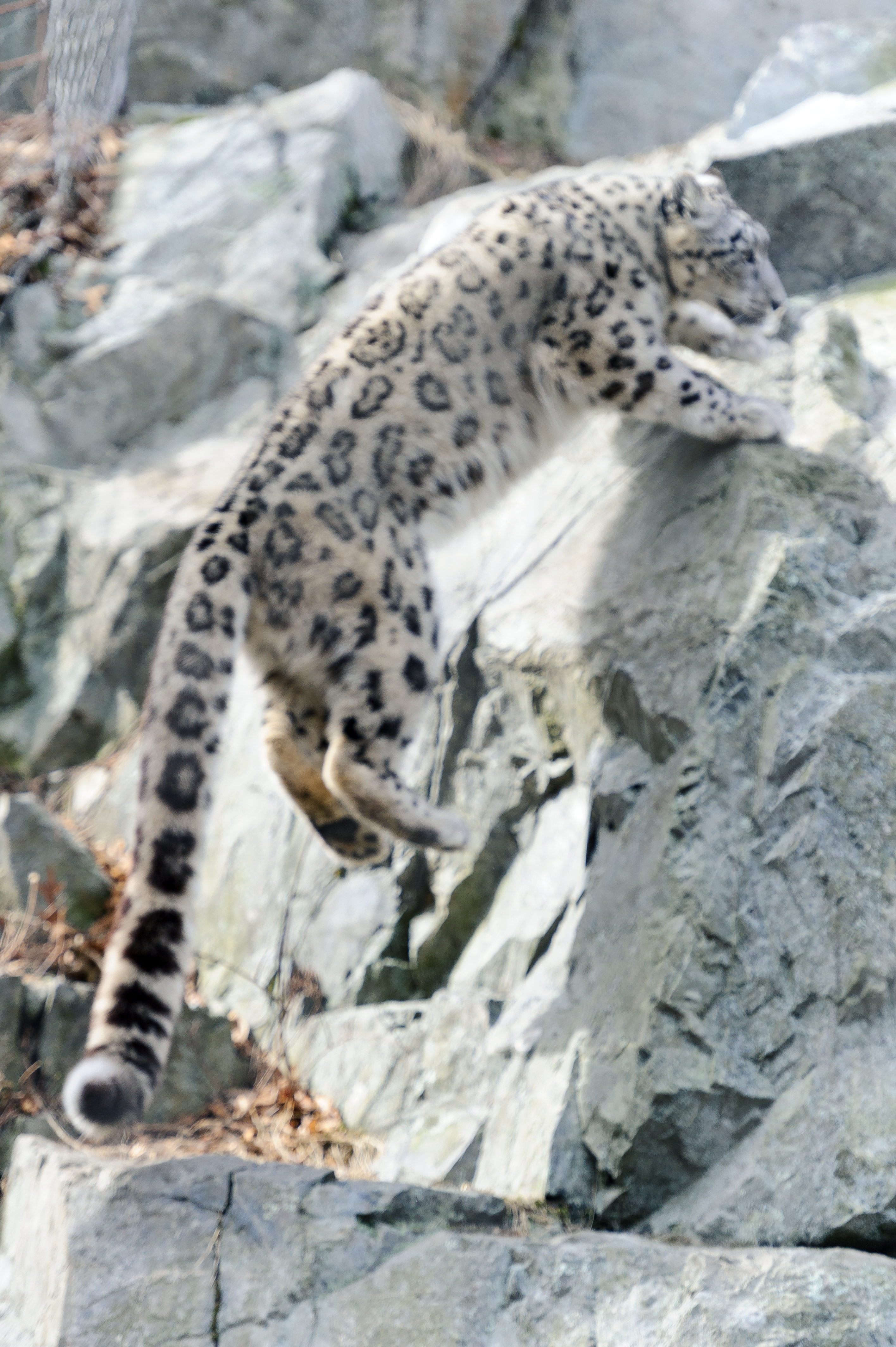 Sorry for the out of focus but it was a cool action shot